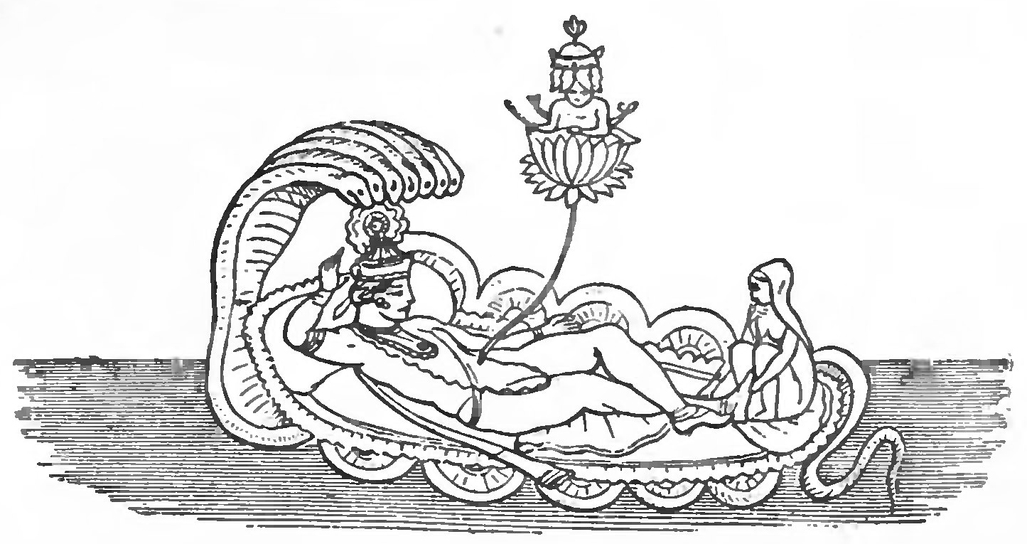 History of India (1906) - Vol 1 Author Romesh Chunder Dutt]Editor A.V. Willians JacksonPublisher The Grolier SocietyTitle History of India (1906) - Vol 1]Volume 1Language EnglishPublication date 1906publication_date QS:P577,+1906-00-00T00:00:00Z/9Place of publication London